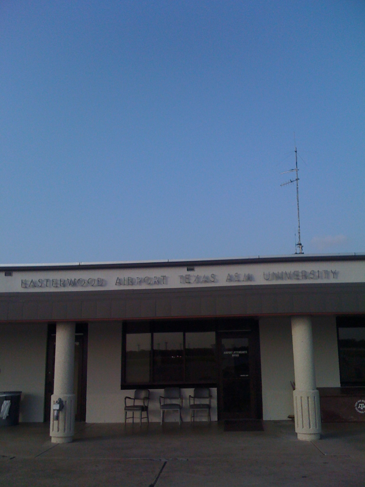 KCLL General Aviation Terminal